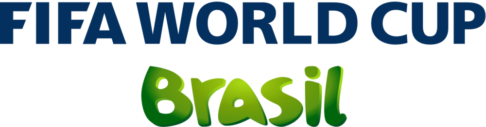 Brazil 2014 letters.